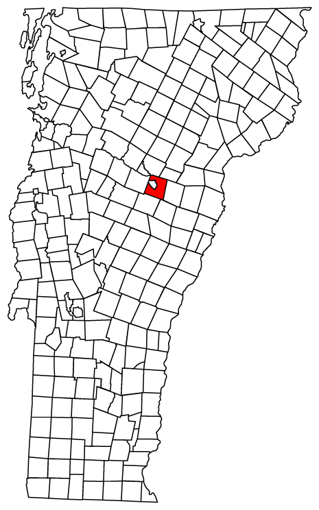 Description: Map of Vermont towns with Barre Town highlighted Source: Map created by Jared C. Benedict on 26 March 2004. Copyright: © Jared C. Benedict. Category:Barre Town, Vermont